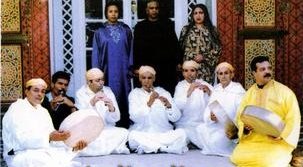 Musicians of Jilala brotherood in 1994, Fes, Morocco